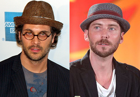 Samuel Drake voice actors from Uncharted series.